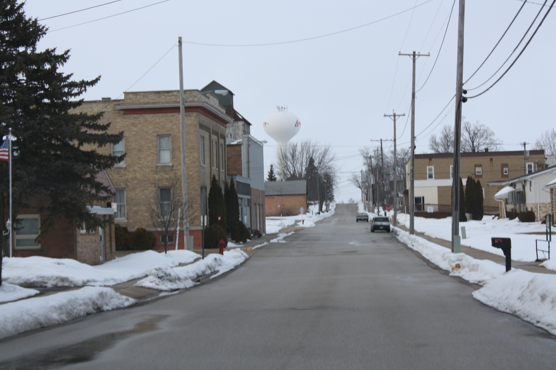 Looking north at downtown Lomira, Wisconsin